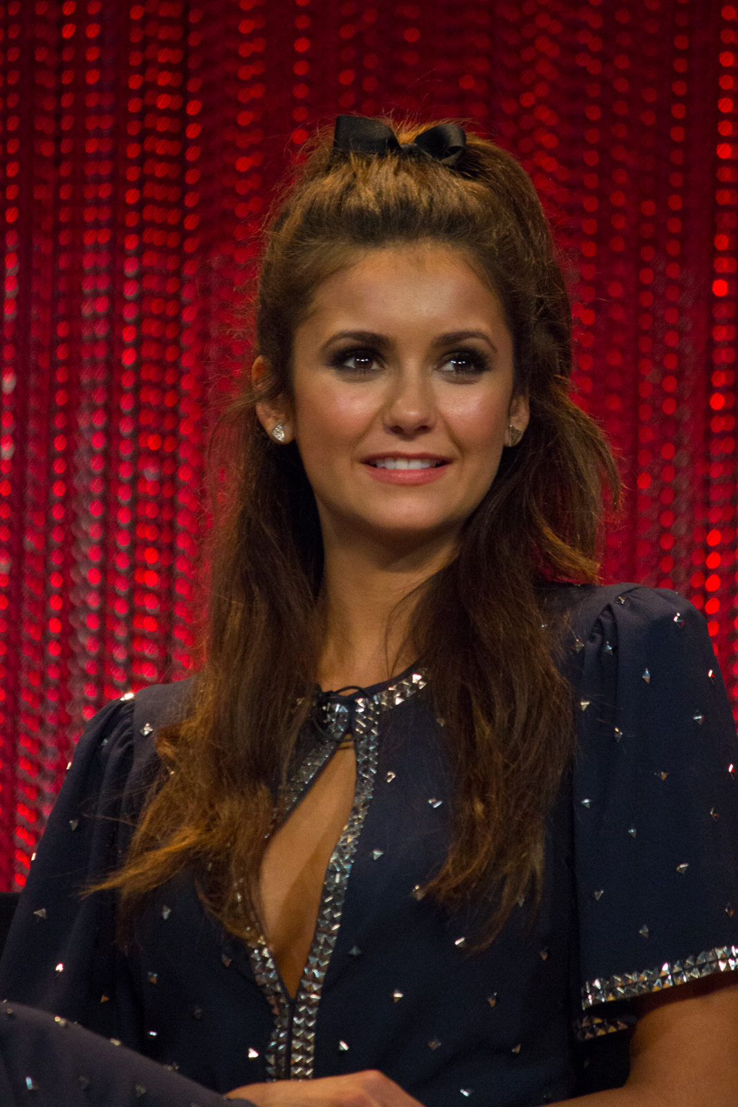 Nina Dobrev at The Paley Center For Media's PaleyFest 2014 Honoring "The Vampire Diaries"